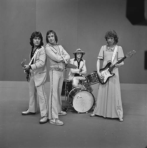 Mud in AVRO's TopPop (Dutch television show) in 1974